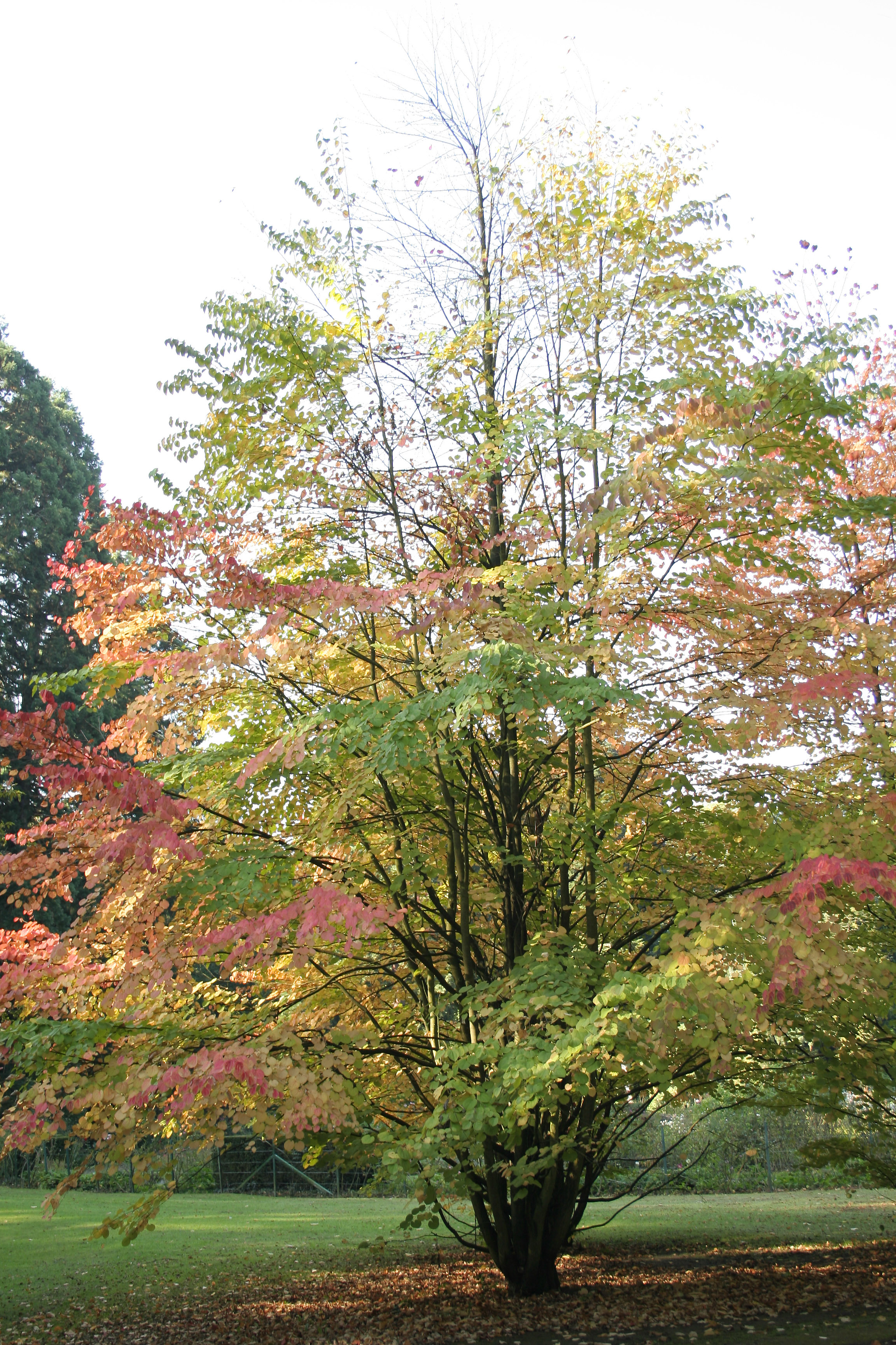 Katsura tree - Cercidiphyllum japonicum :Parc de Mariemont (884) - Morlanwelz-Mariemont (Belgium). Walon: Aube au caramel - Cercidiphyllum japonicum Parc di Mariémont (884) - Marlanwelz-Mariemont (Bèljike).